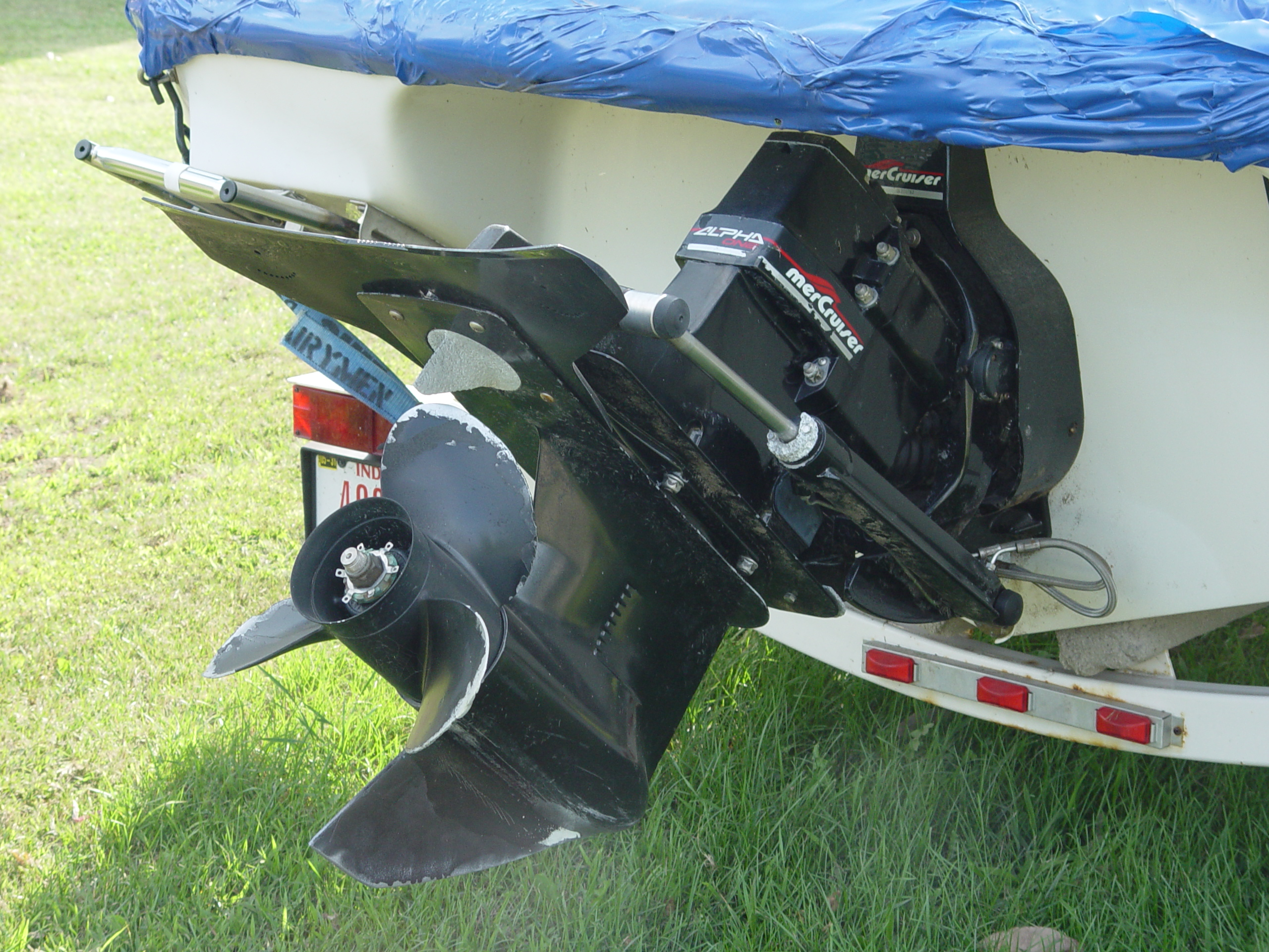 Mercruiser sterndrive